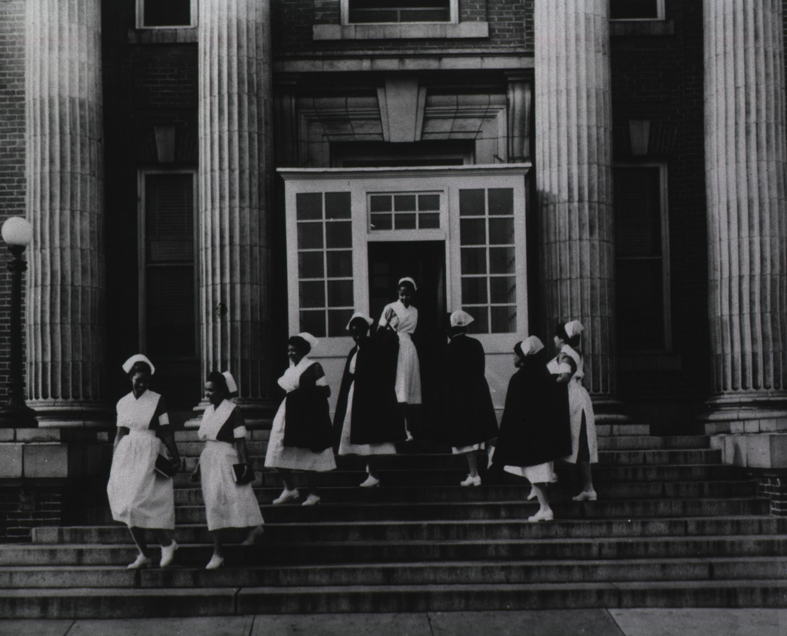 Language(s): English Format: Still image Subject(s): Nurses, African Americans Genre(s): Pictorial Works Abstract: Close-up of the entrance to the Freedmen's Hospital; some African American nurses are going up and others are going down the exterior steps. Extent: 1 photographic print : 10 x 13 cm.. Technique: black and white NLM Unique ID: 101446067 NLM Image ID: A018026 Permanent Link